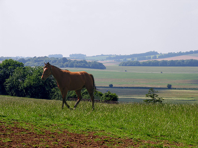 Race Horse Paddock on Farmland at Kingwood Stud. The paddock overlooks Coppington Down and this bearing is west.